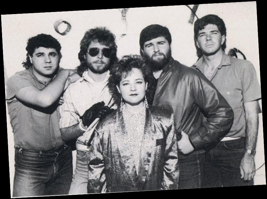 Archival photo of Spyglass Guest